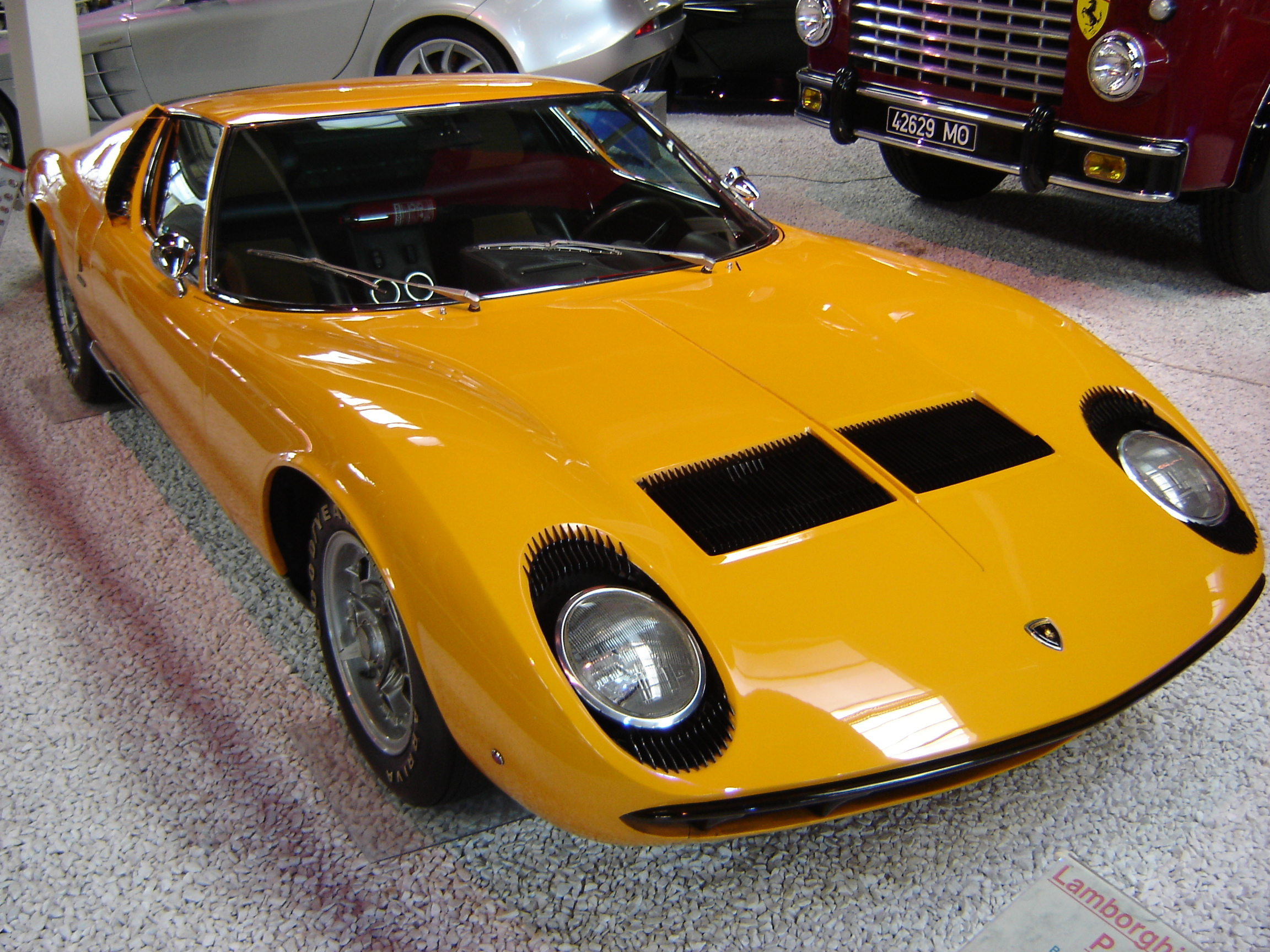 Lamborghini Miura in Technical Museum Sinsheim